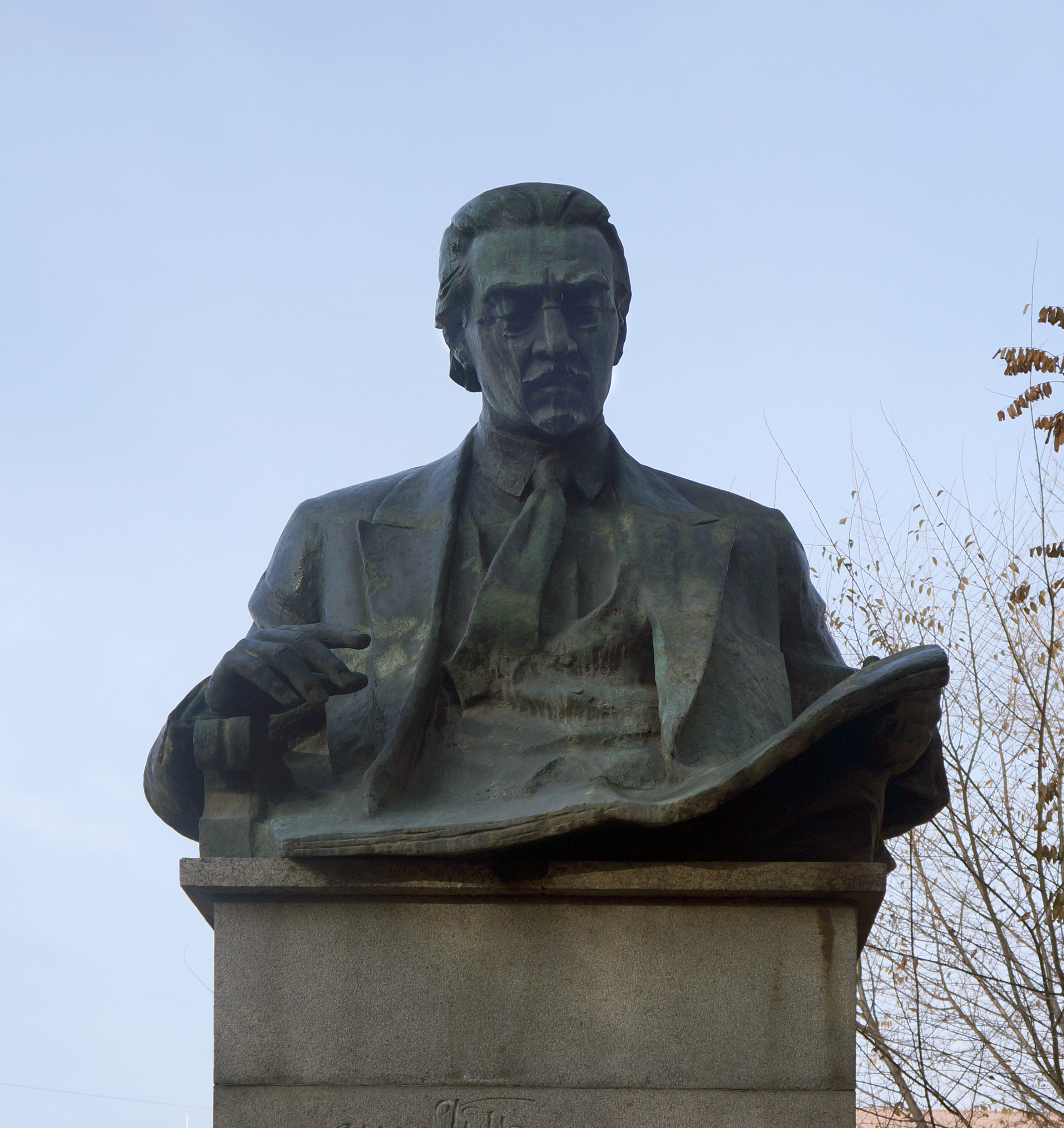 Armen Tigranyan (Armenian music composer) statue in the park of Sayat Nova in Gyumri, Armenia 1/4.891